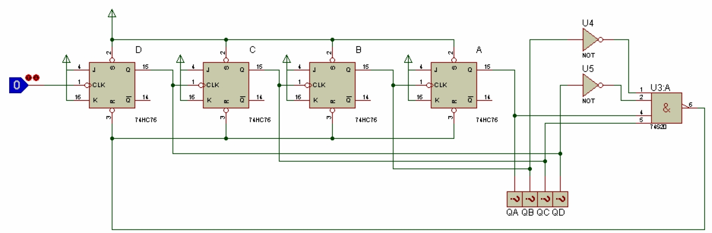 Counter